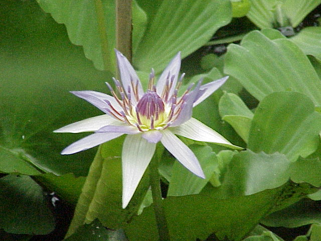 Species: Nymphaea colorata Family: Nymphaeceae Image No. 1